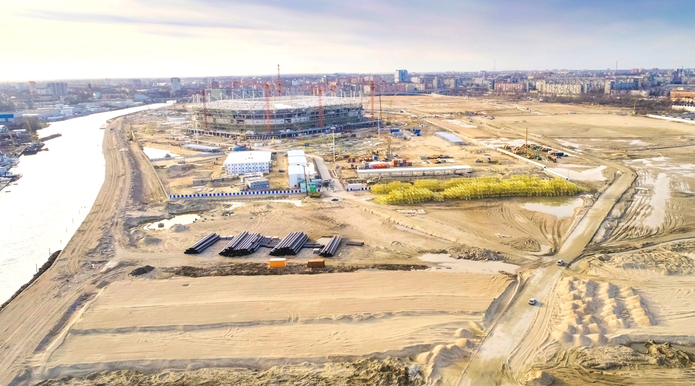 Kaliningrad Stadium under construction